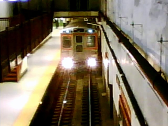 A Broad Street Subway express train arrives at City Hall Station.